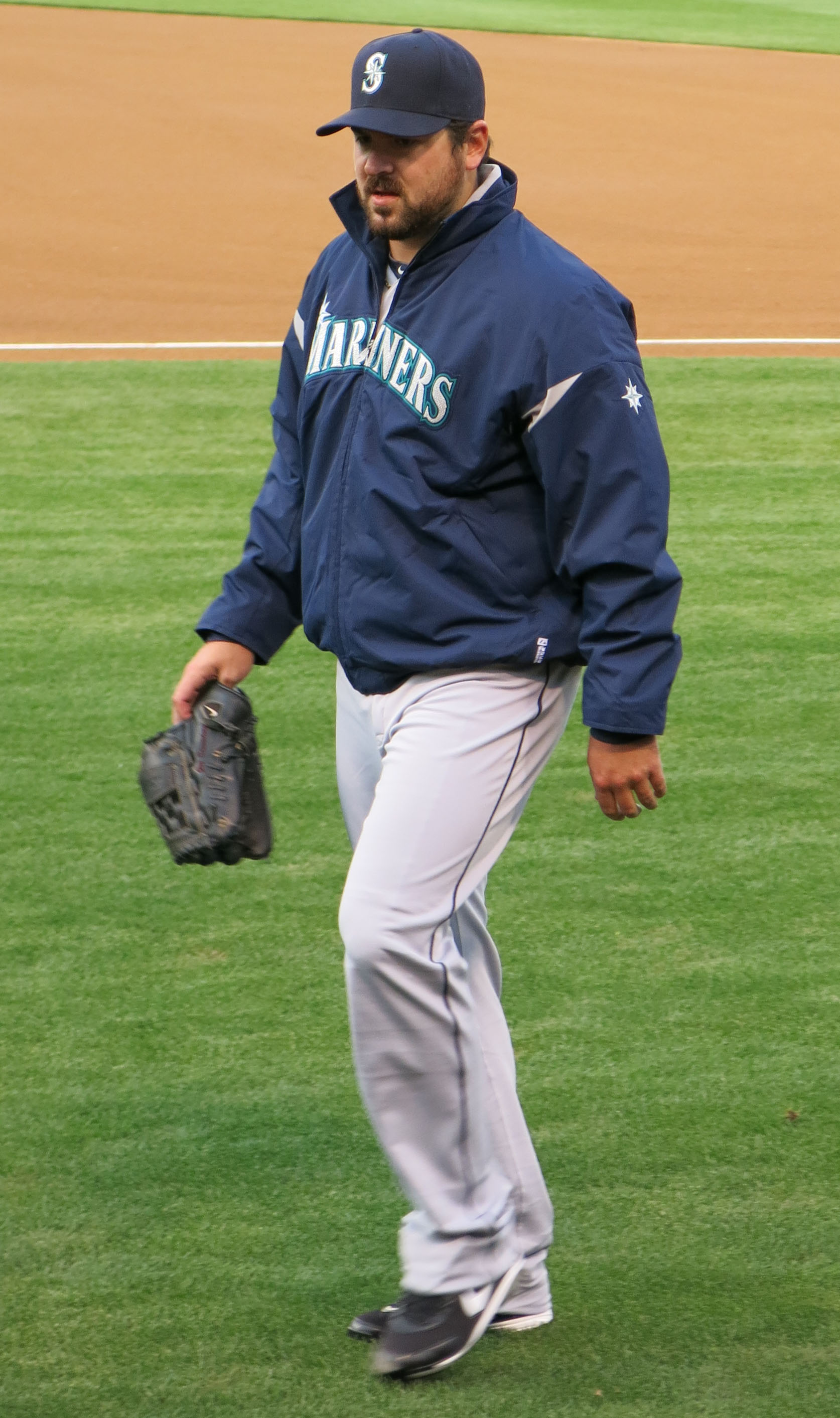 Seattle Mariners starting pitcher Joe Saunders